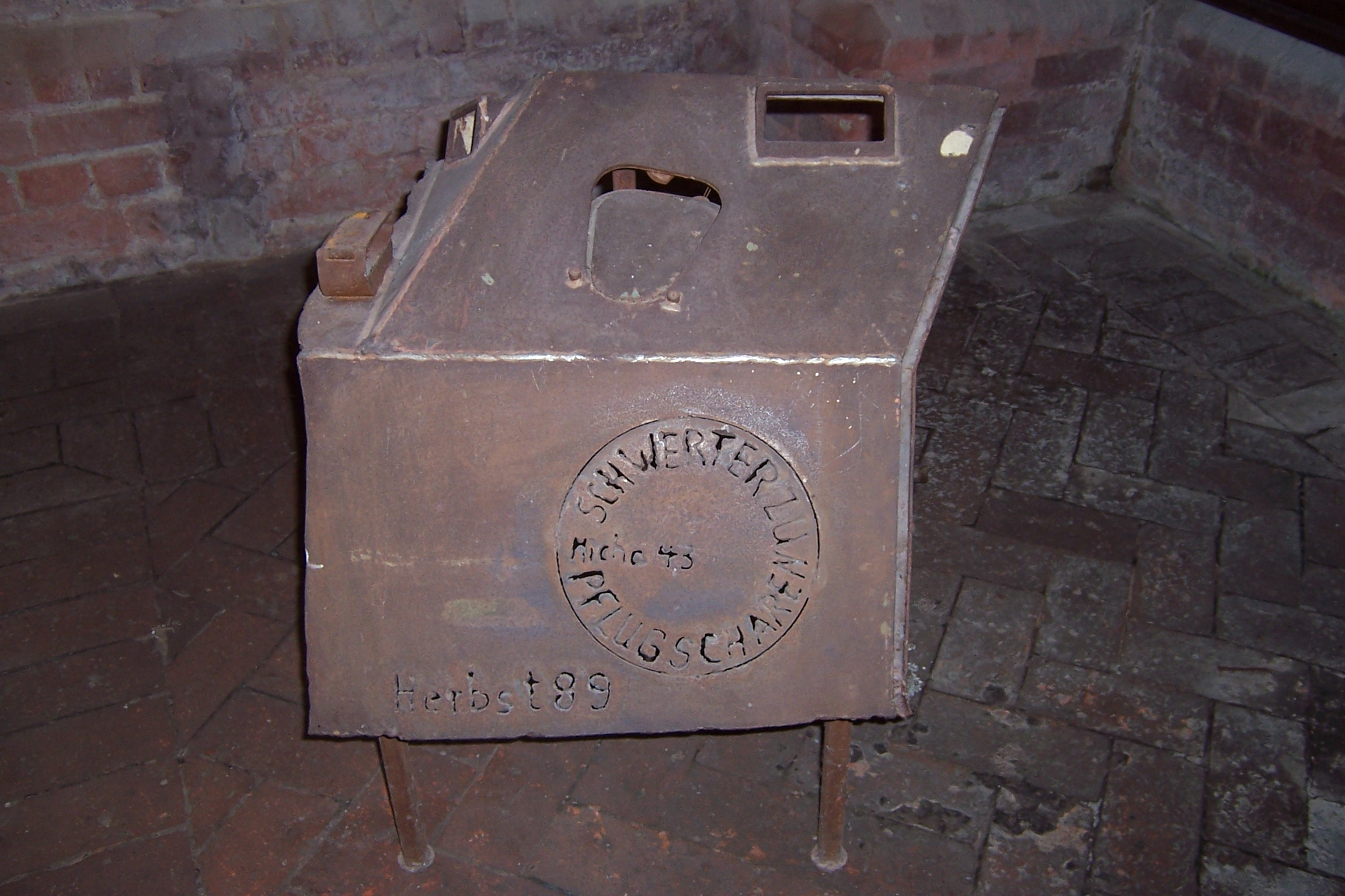 Schwerter zu Pflugscharen (Swords into Ploughshares) Memorials in the Stadtkirche Teterow, made from NVA armored personnell carrier, dismantled at RWN (Reparaturwerke Neubrandenburg) in 1990